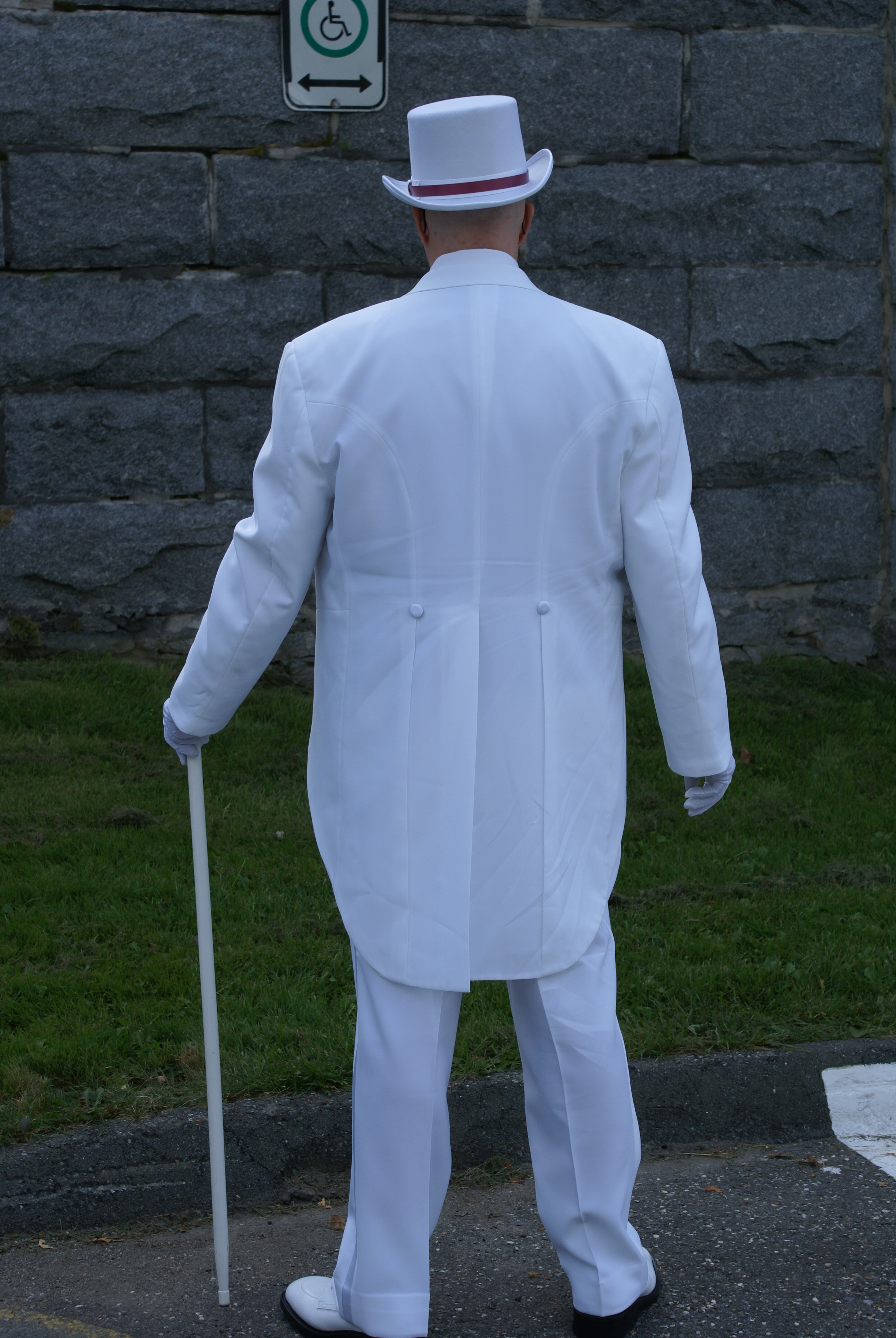 Wedding of my cousin in St-Patrick church in Magog, Quebec, Canada.